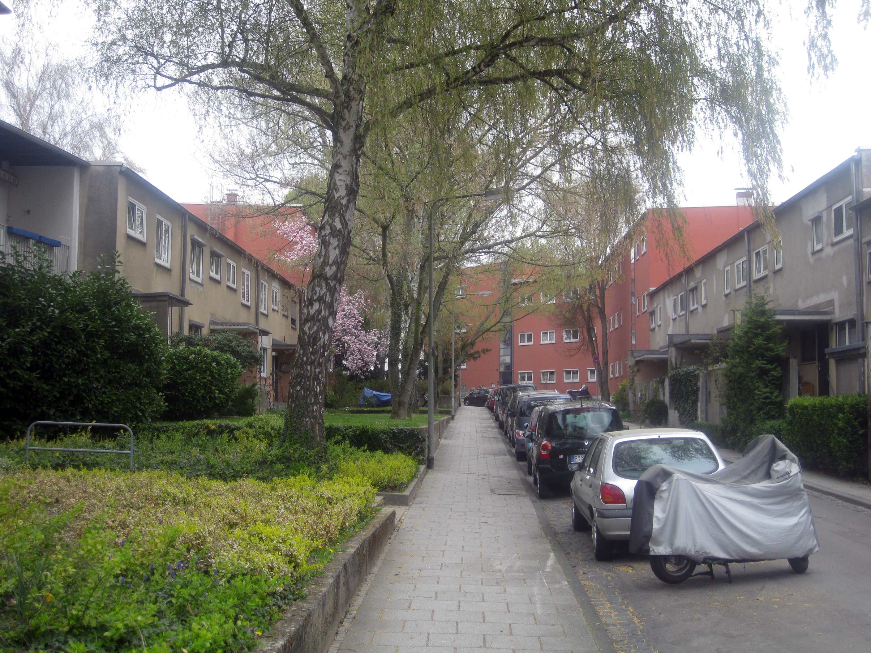 A street in Frankfurt-Römerstadt